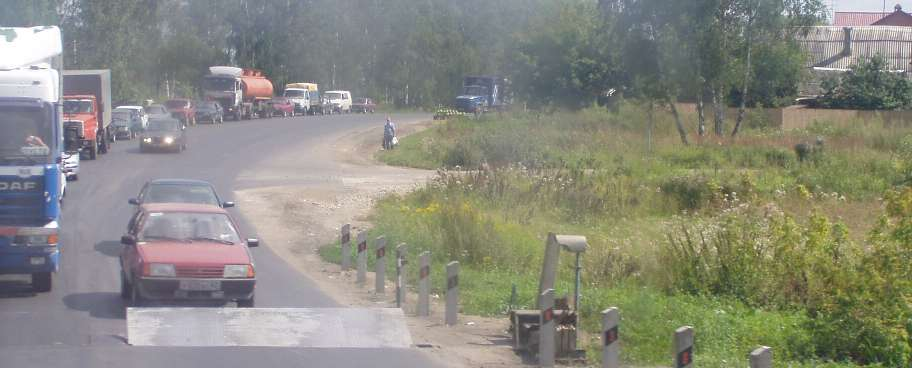 A railway cross near Белые Столбы